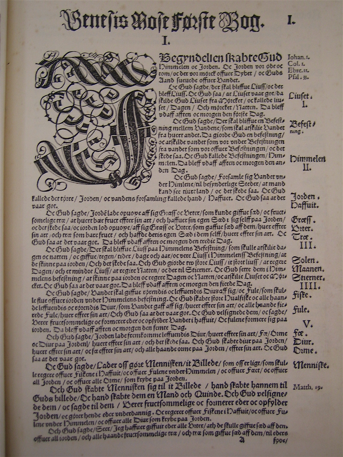 First book of Moses in danish translation from an old bible version. The text says: Genesis Mose Første Bog. I. I. I Begyndelsen skabte Gud Himmelen oc Jorden...